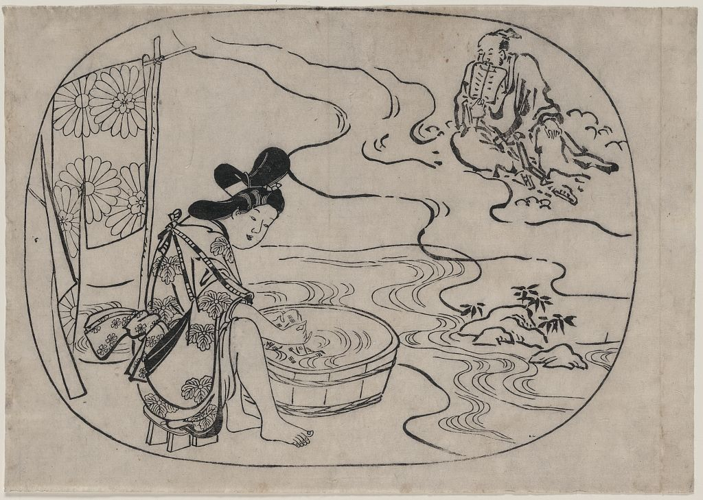 "The Daoist sage Kume" (Kume no sennin), an ukiyo-e print attributed to Sugimura Jihei. LOC description: Kume Sennin or Kume the Immortal, a recluse with the ability to travel through the air, spying on a young woman washing clothes.